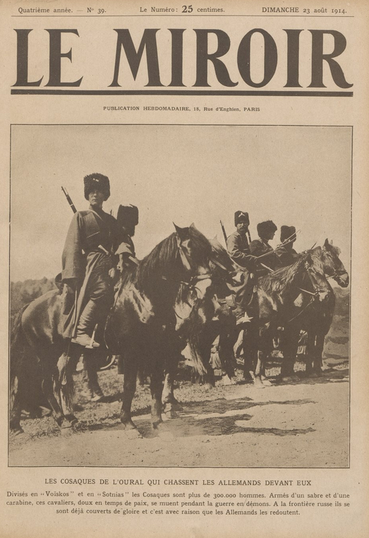 Front cover Le Miroir issue 39, August 23th, 1914. Image : 'Les Cosaques de l'Oural'.